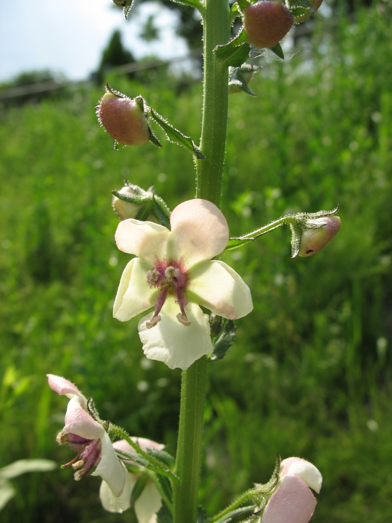 Photograph of Verbascum blattaria, taken in Machida city, Tokyo, Japan.